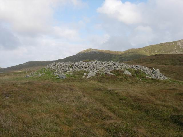 Dun Bharpa A large chambered cairn, near Borve, on Barra.